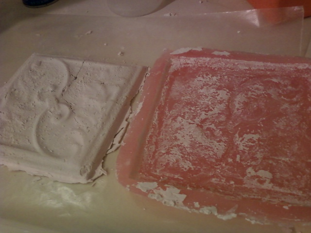 Silicone mold and the demolded tile that was produced by the mold.